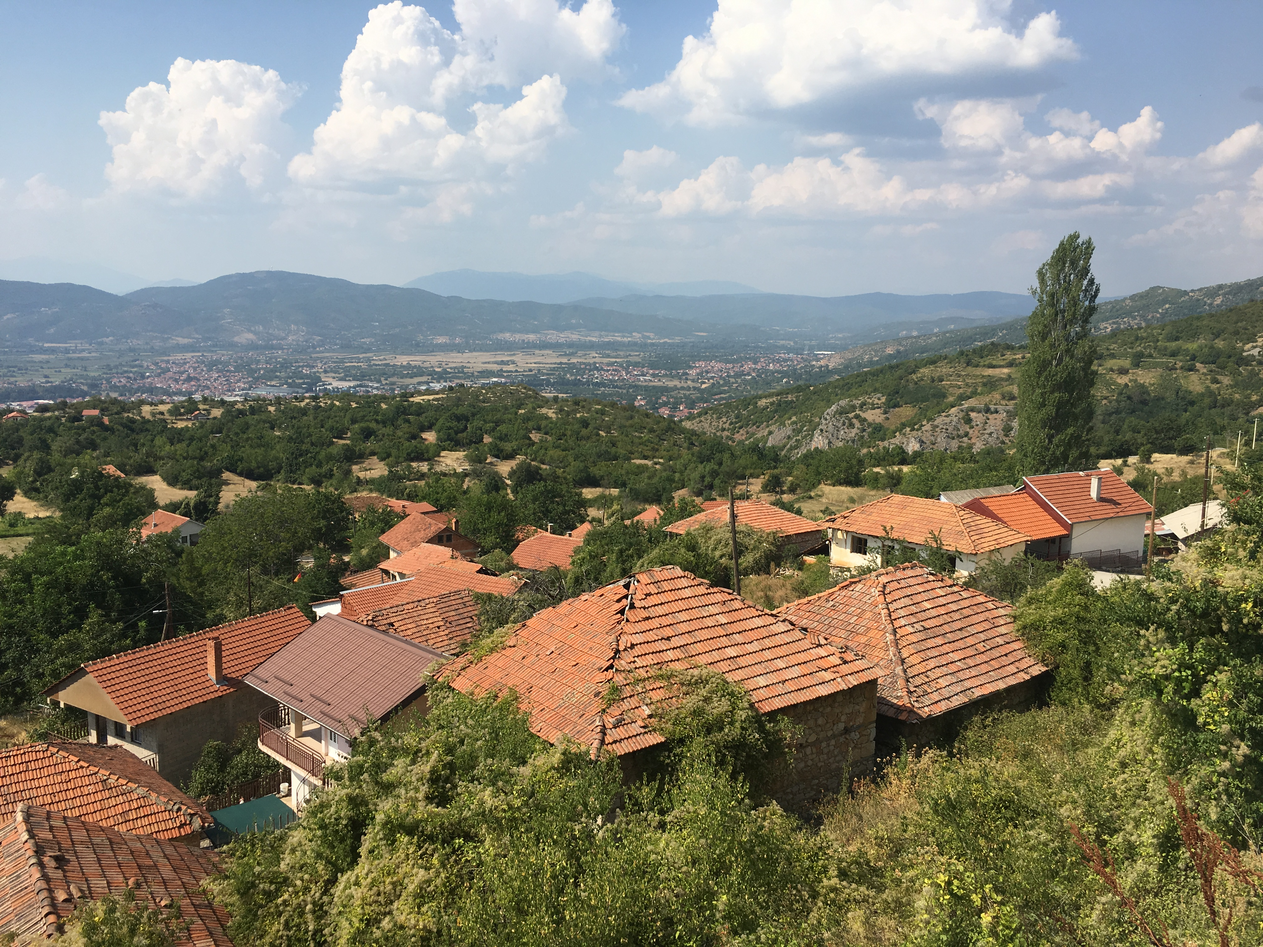 A view of the village of Ramne